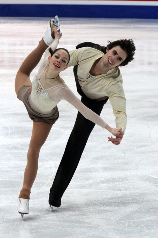 Carolina Gillespie / Luca Dematte at the 2011 European Figure Skating Championships.